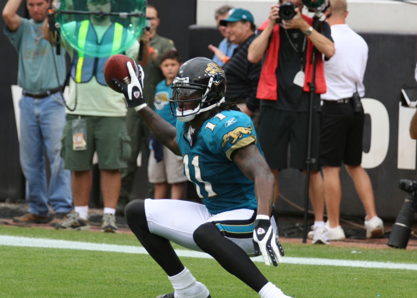 Reggie Williams celebrated a touchdown pass. The Jaguars handed Oakland Raiders a 47-11 defeat to clinch a playoff position. Dec 23rd, 07